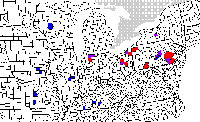 The distribution of the Pennsylvania German language in the United States. Blue counties are the 20 counties with the highest proportion of Penna. German speakers, red counties are the 20 counties with the highest number of Penna. German speakers. (Purple counties are both red and blue.)